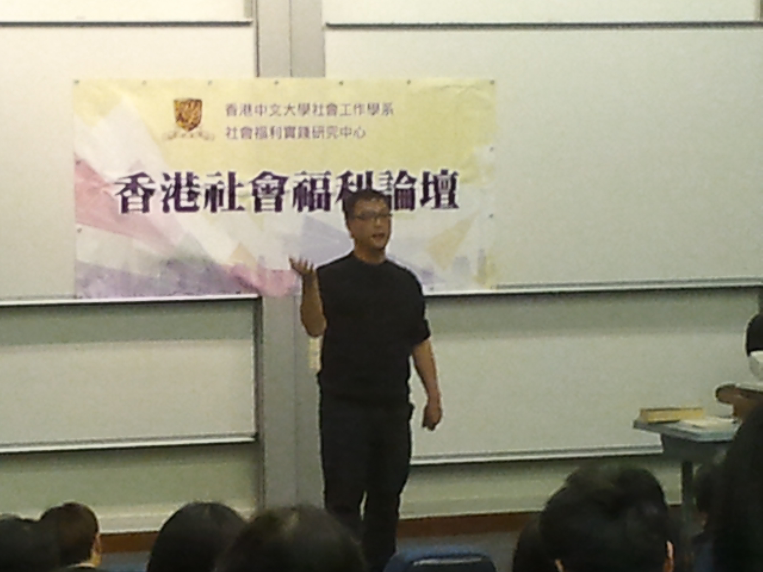 Chow Po Chung in seminar